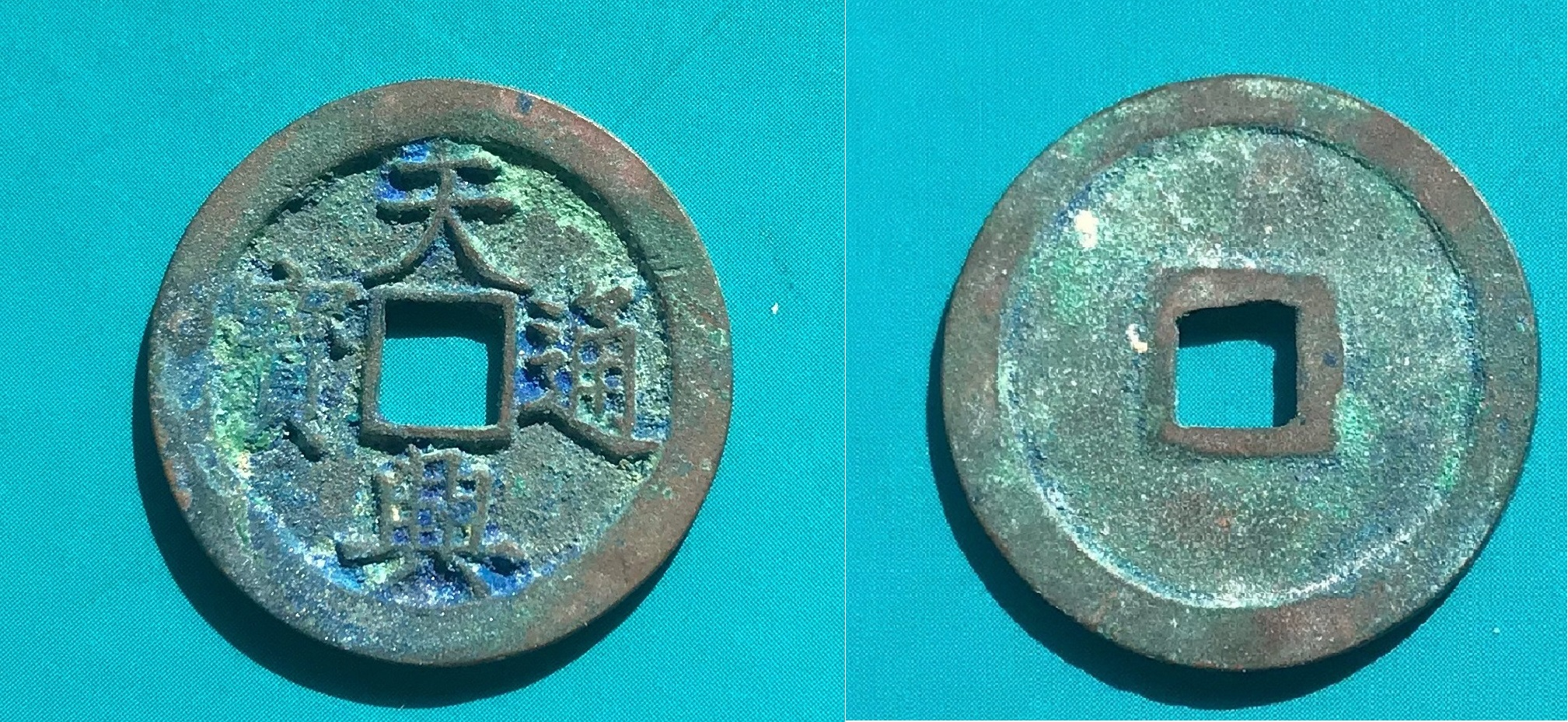 Ảnh đồng tiền Thiên Hưng thông bảo do vua Lê Nghi Dân cho đúc